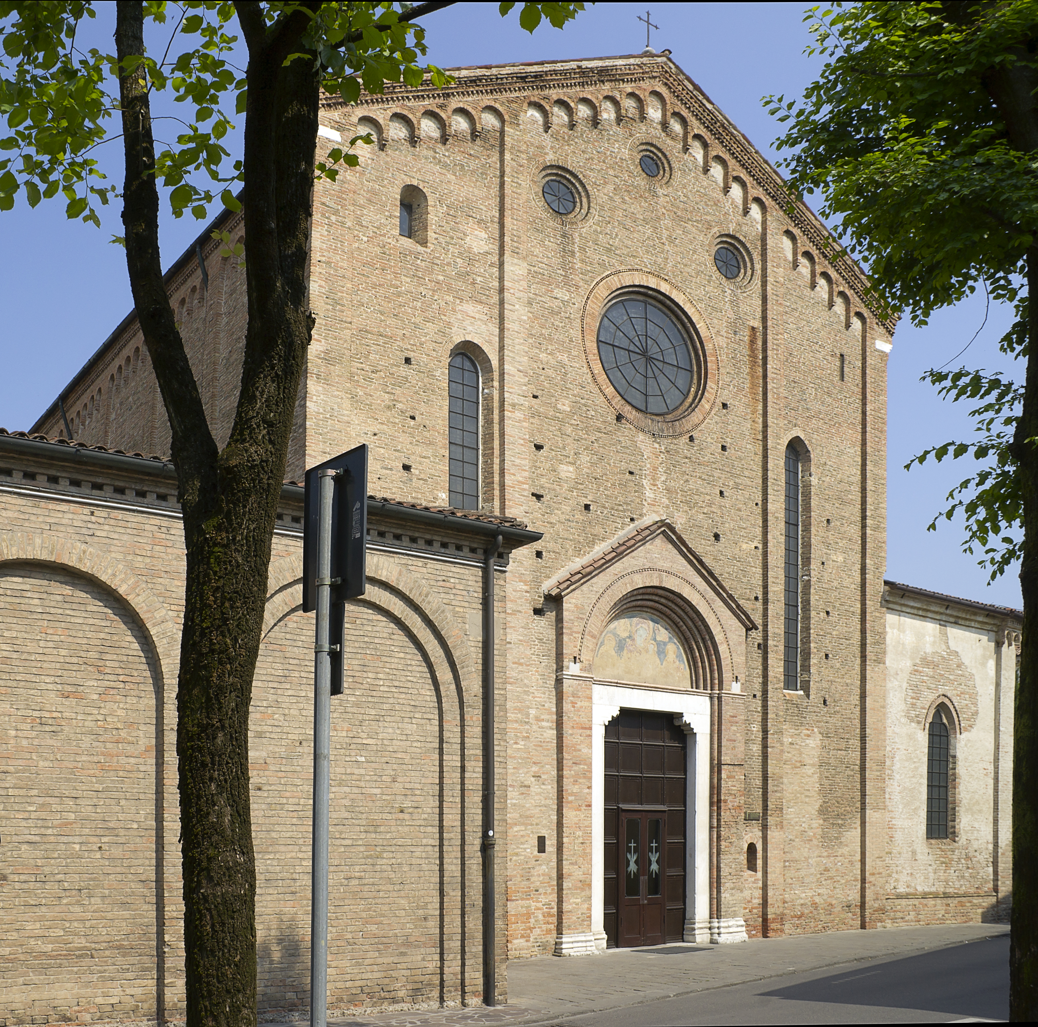 Church Convent San Francesco of Treviso - Facade